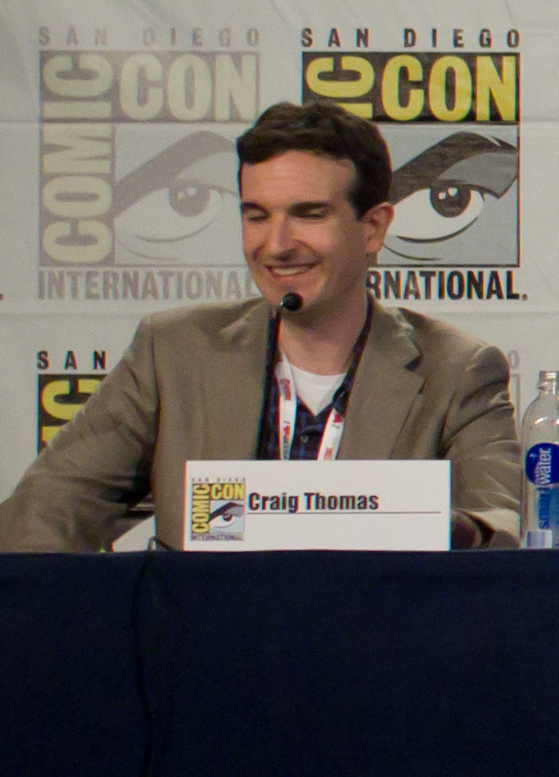 How I Met Your Mother